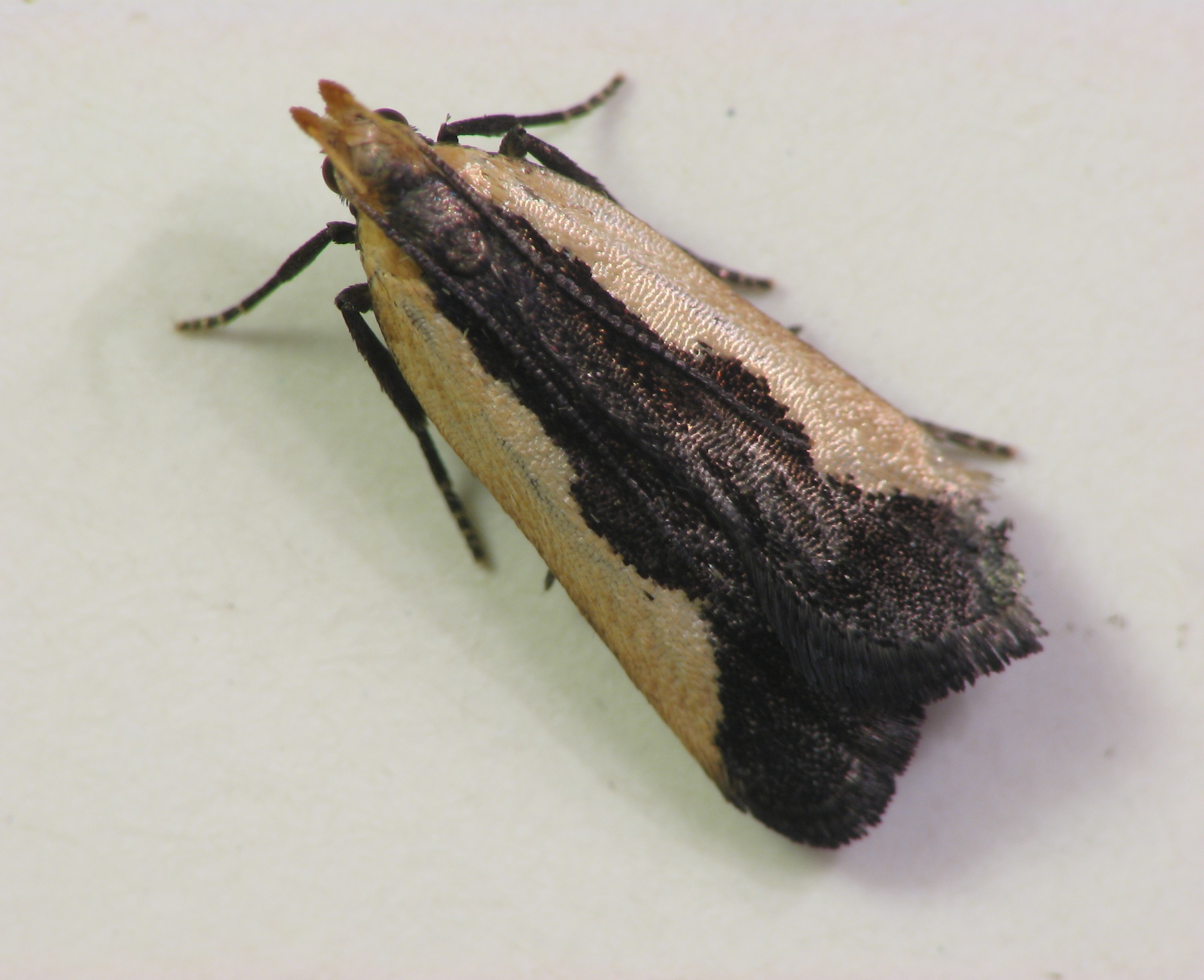 Dichomeris inserrata, Indented Dichomeris Moth. Size: 13 mm wingspan. Horsham trail. Horsham, Montgomery County, Pennsylvania, USA. goldenrod fauna